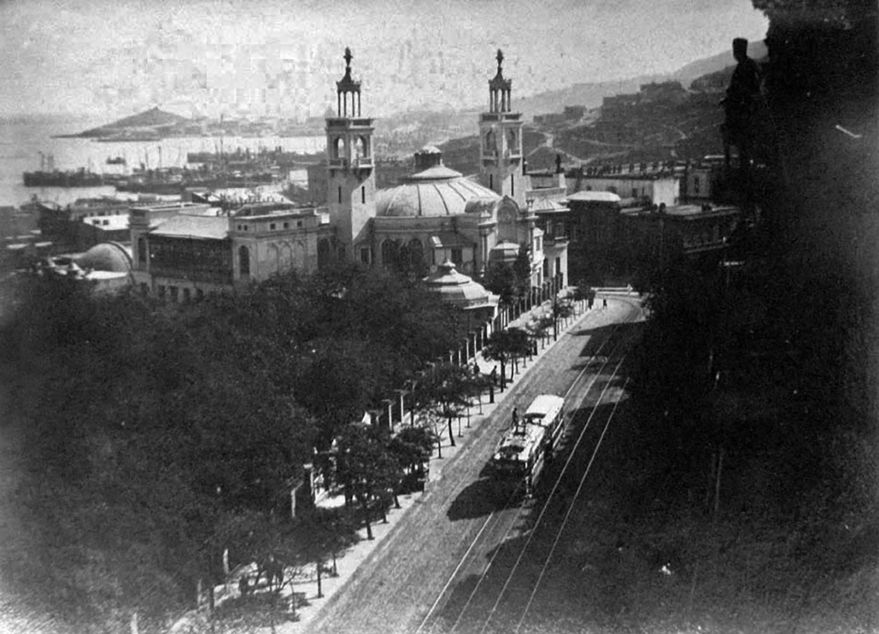 Baku. Kommunist street